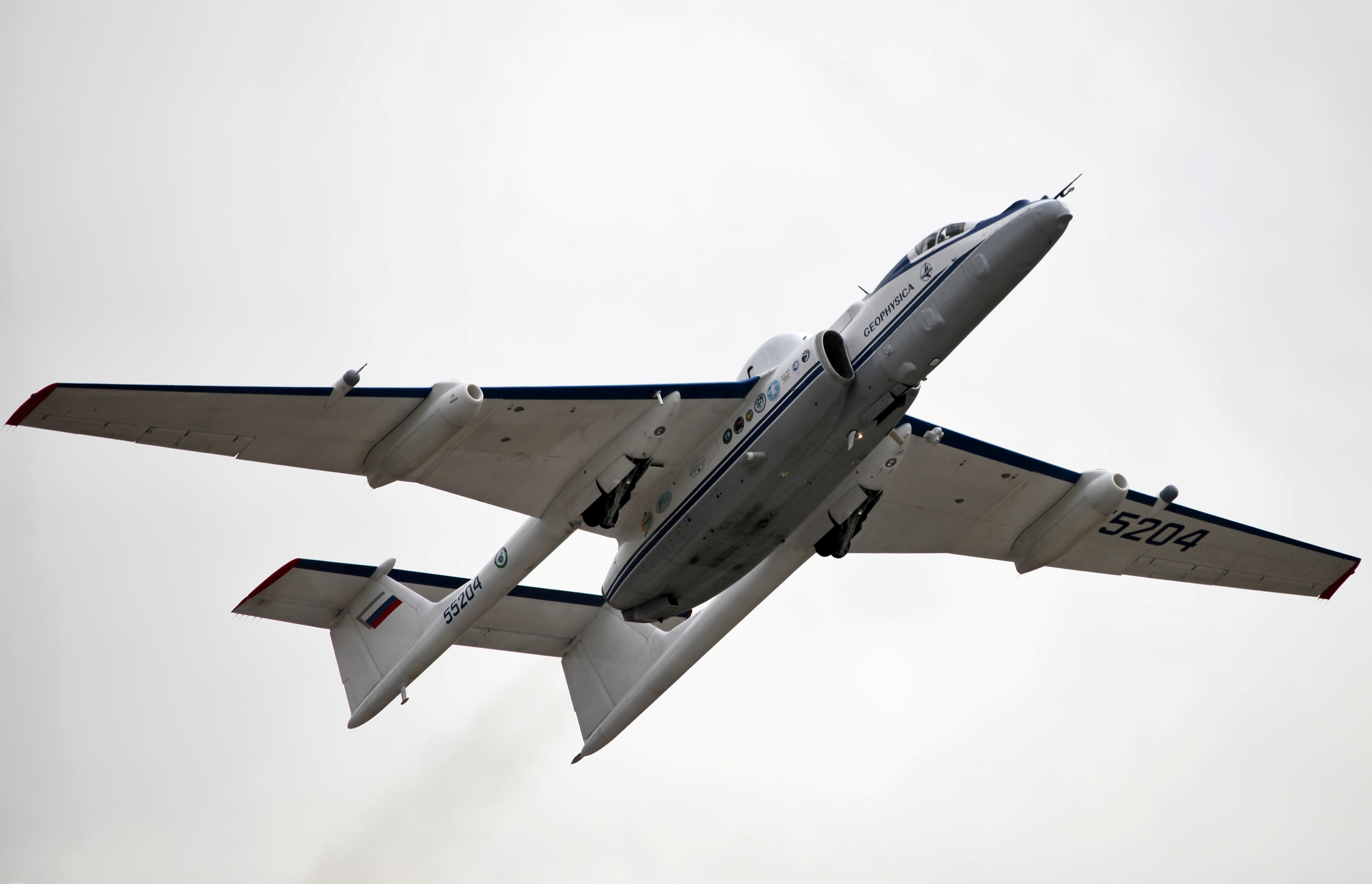 100th Anniversary of the Russian Air Force - Myasishchev M-55 Geophysica.